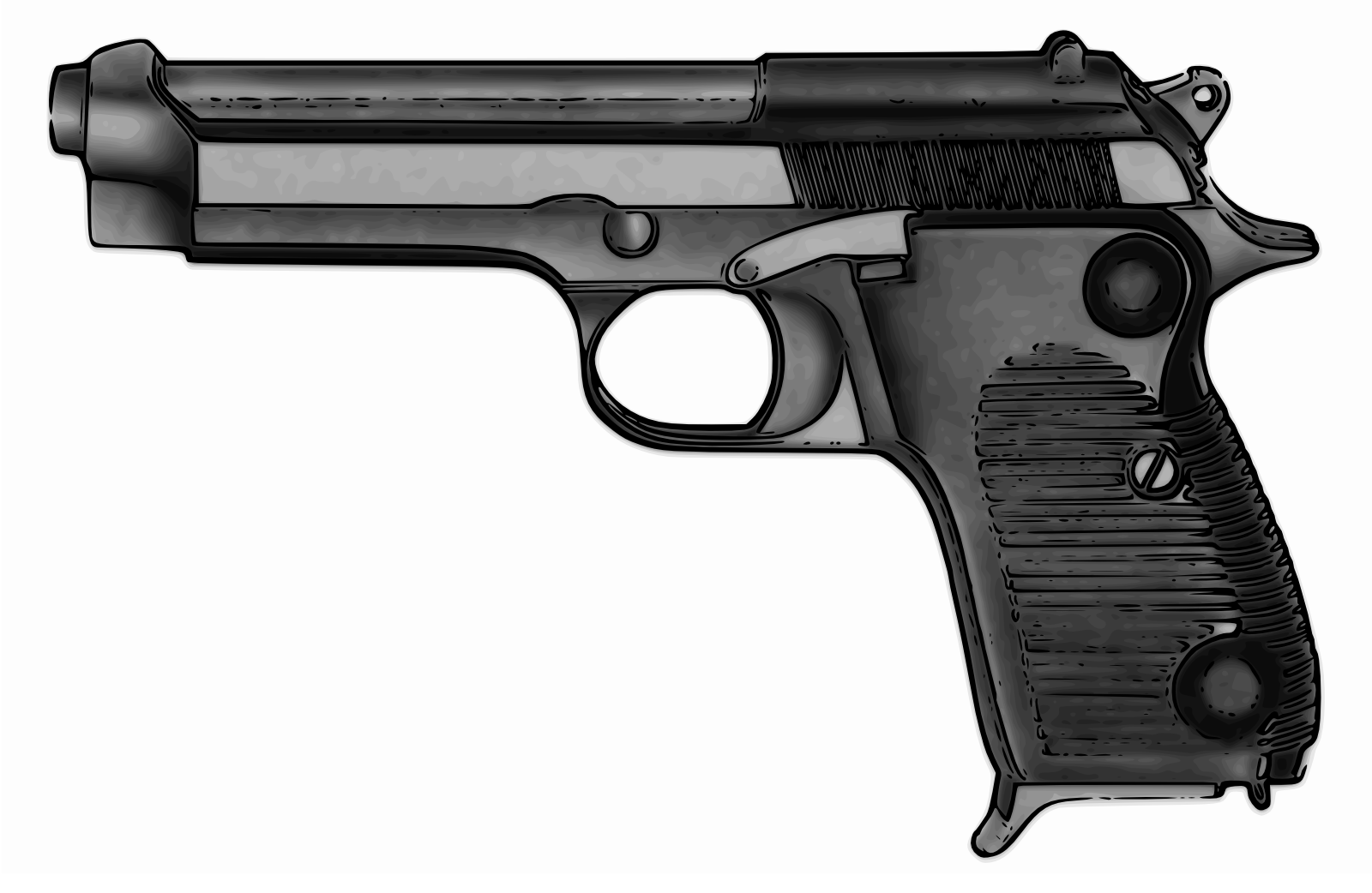 Beretta M951, standard service firearm to the Italian armed forces